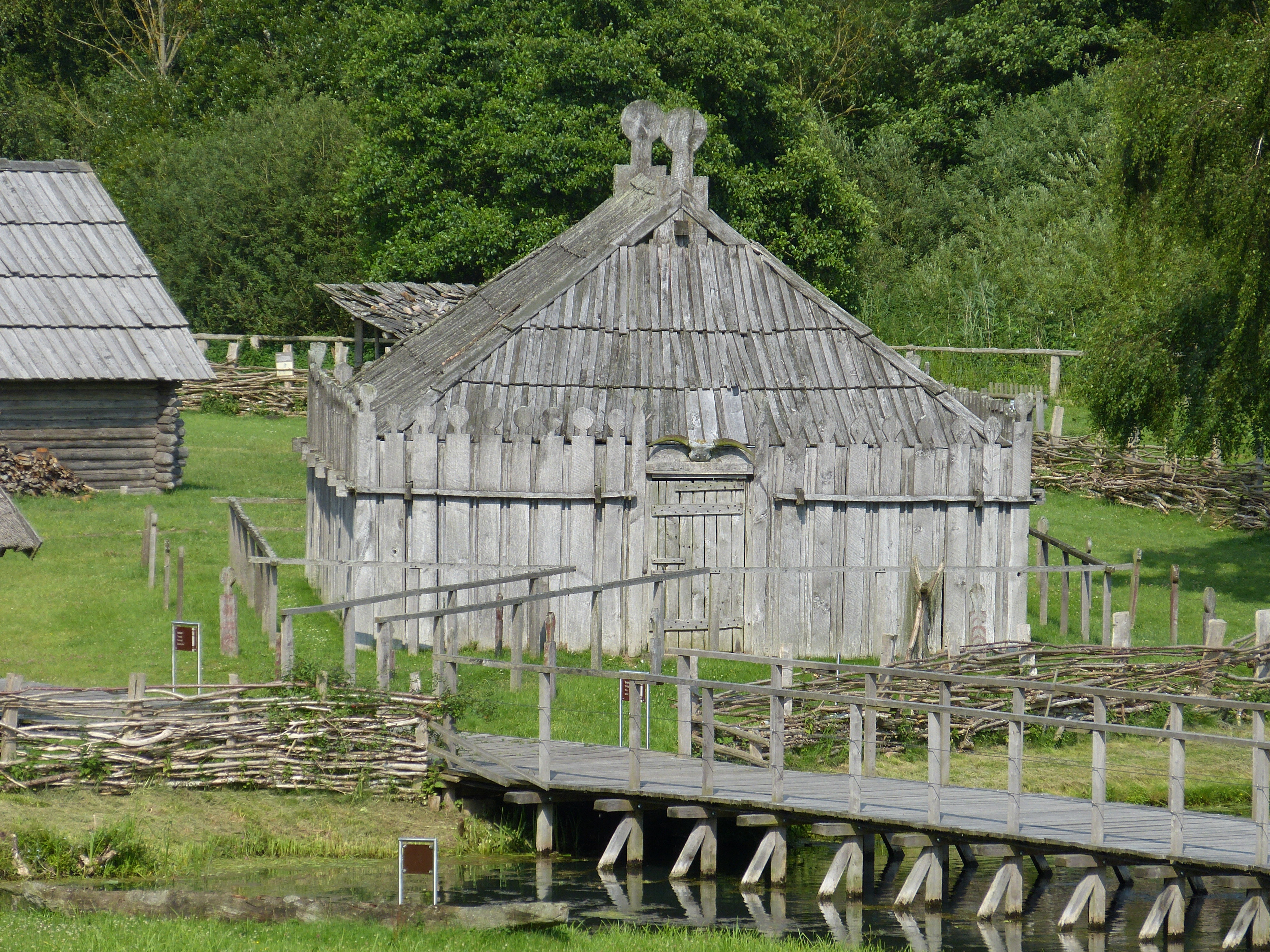 Groß Raden ( Mecklenburg ). Reconstruction of a Slavic settlement: Temple ( 10th century )